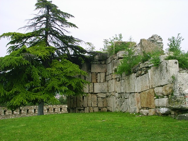 Skopje, capital of the Republic of Macedonia